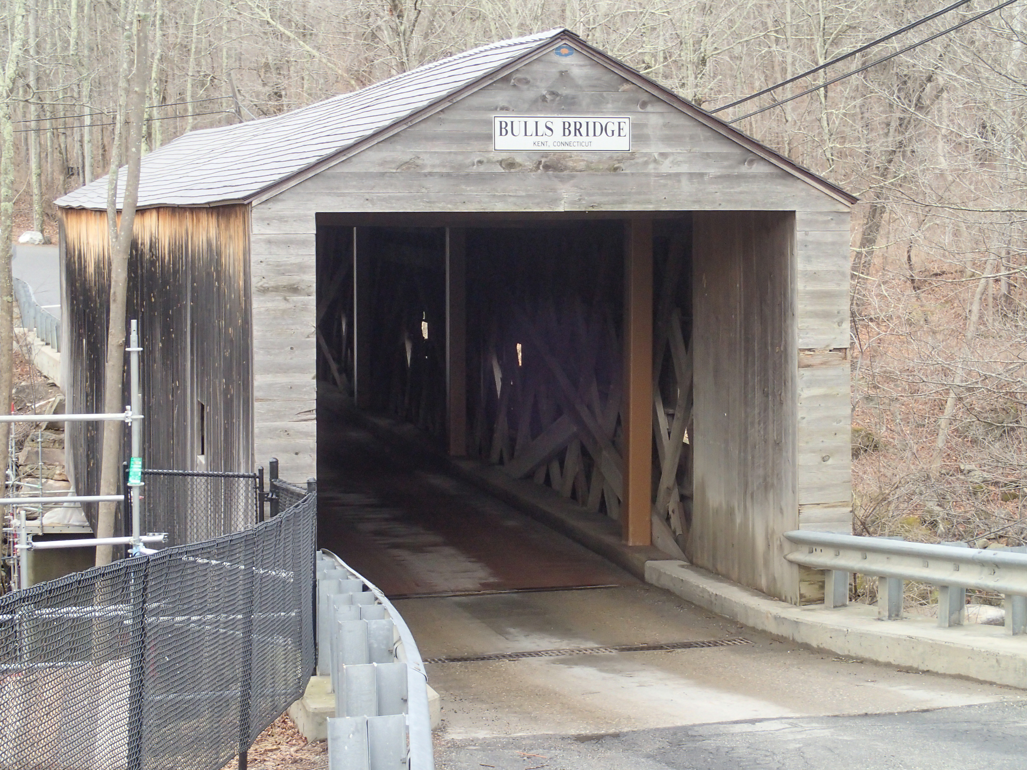 Bulls Bridge on the Housatonic River at Kent, CT